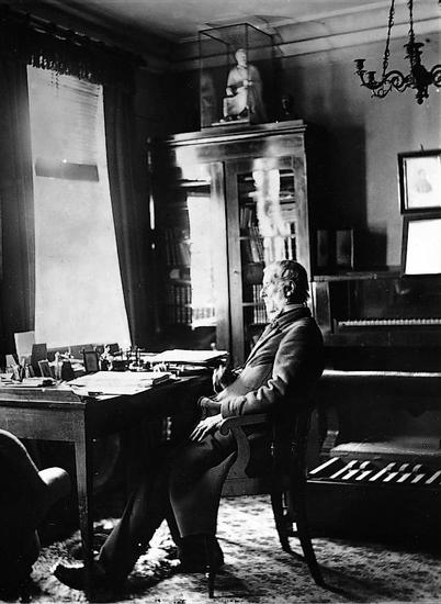 J.P.E. Hartmann in his study on the second floor at Kvæsthusgade 3 in Copenhagen, Denmark.